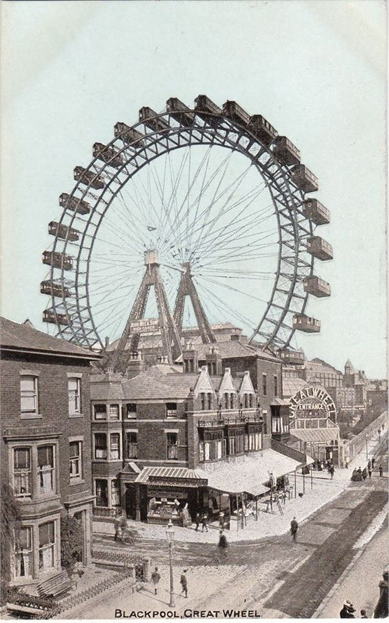 Big Wheel Blackpool